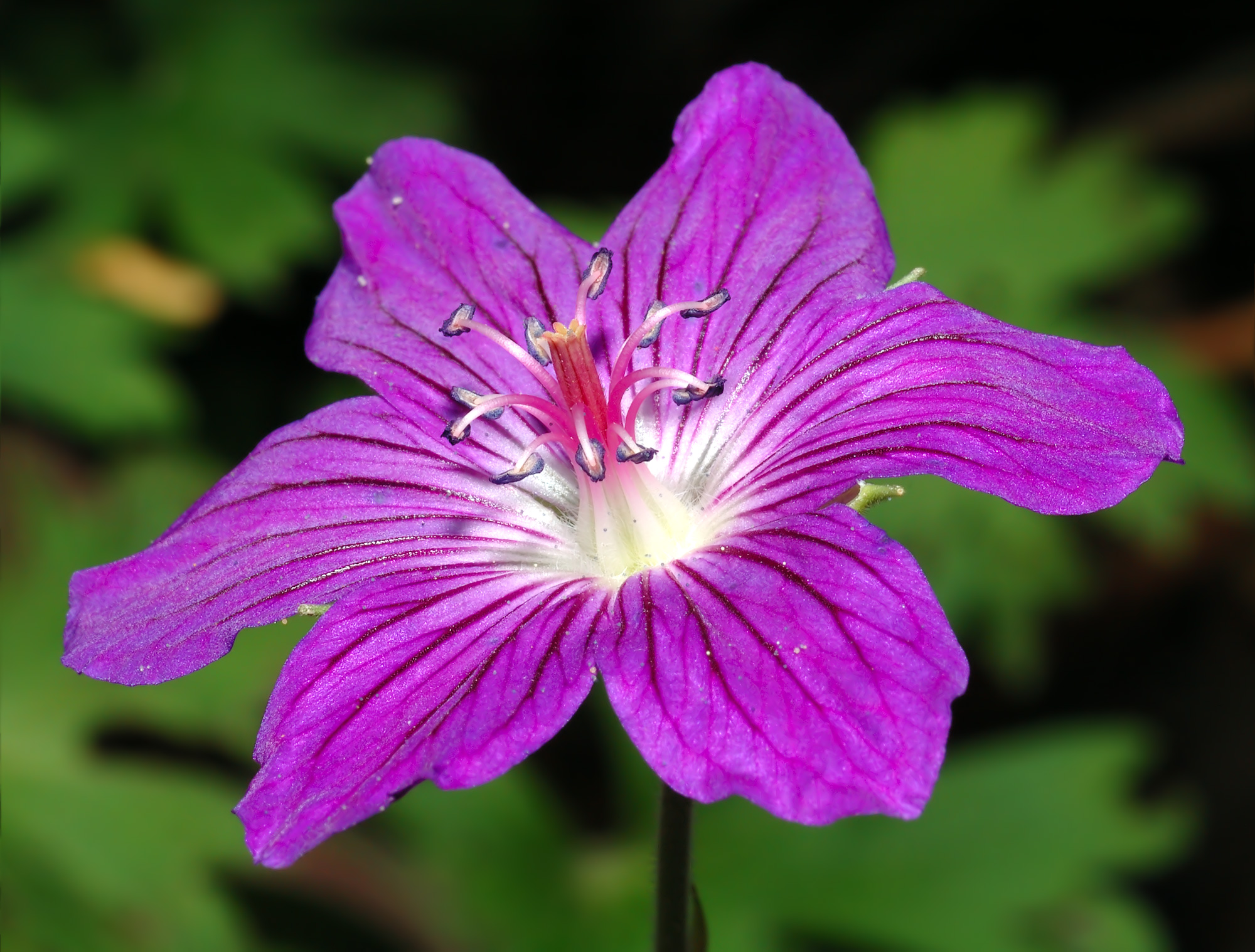 This image shows the blossom of Geranium wlassovianum.